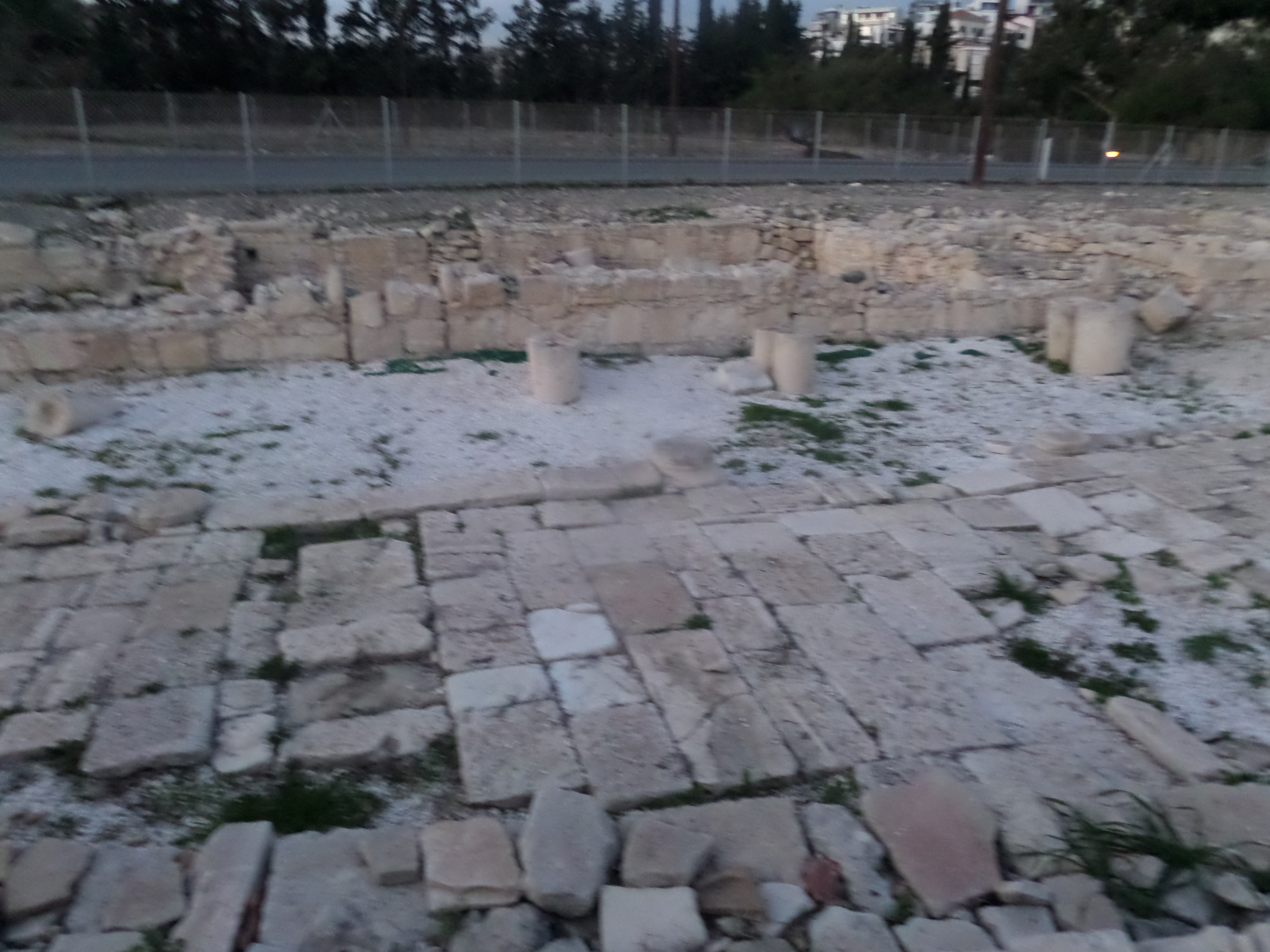 Amathous Archaeological Site